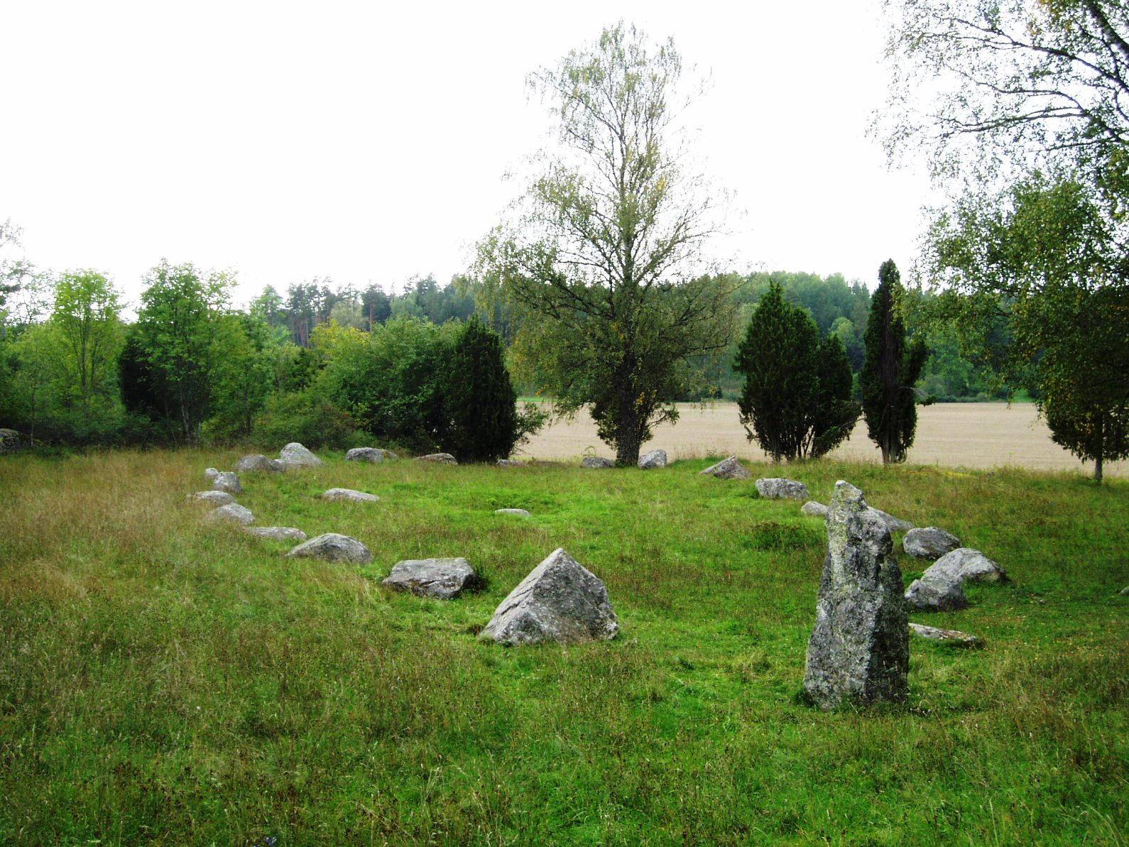 Stone ship at Runsa, Uppland, Sweden